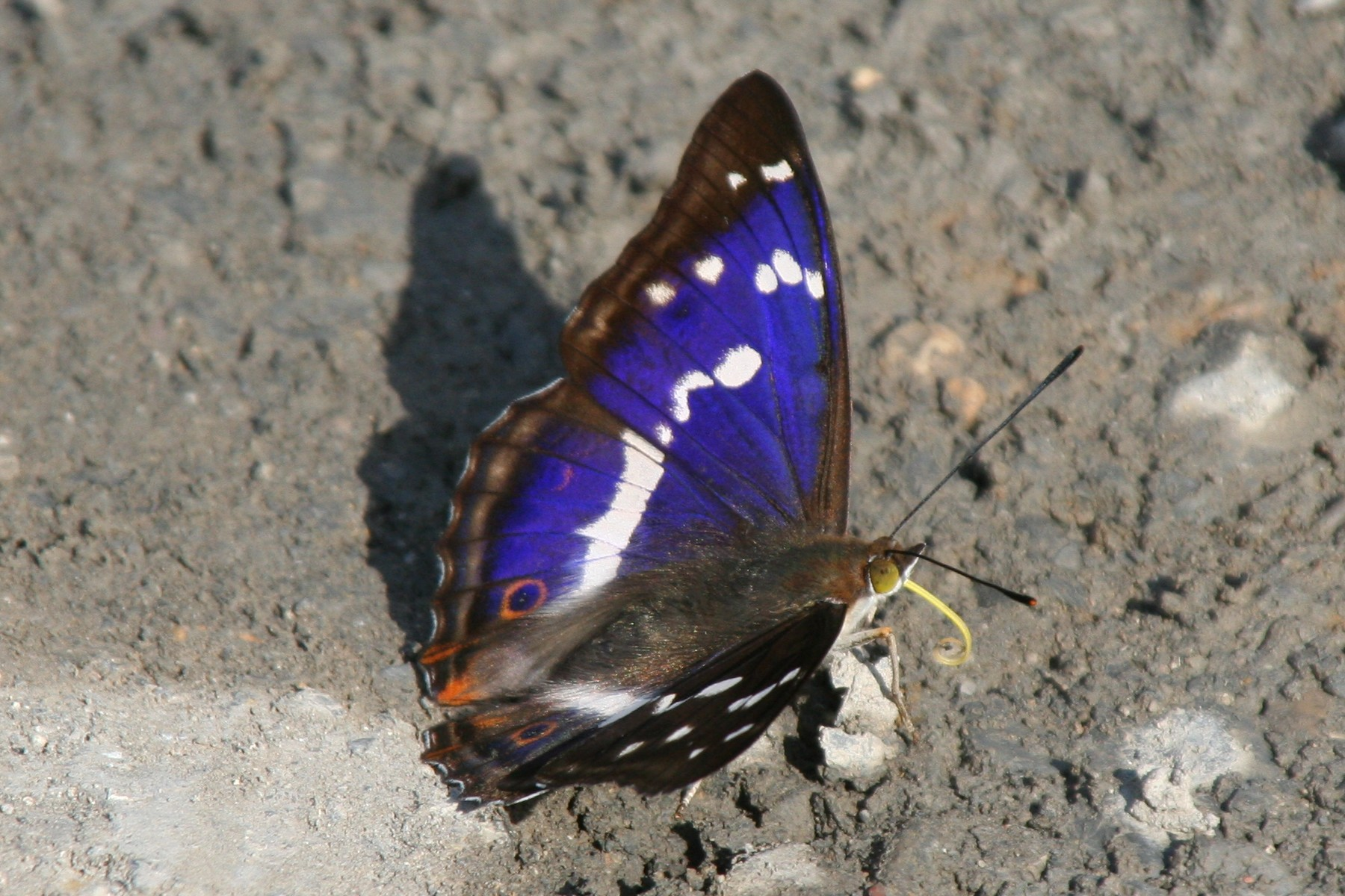 A male Purple Emperor (Apatura iris), photographed in Weinsberg